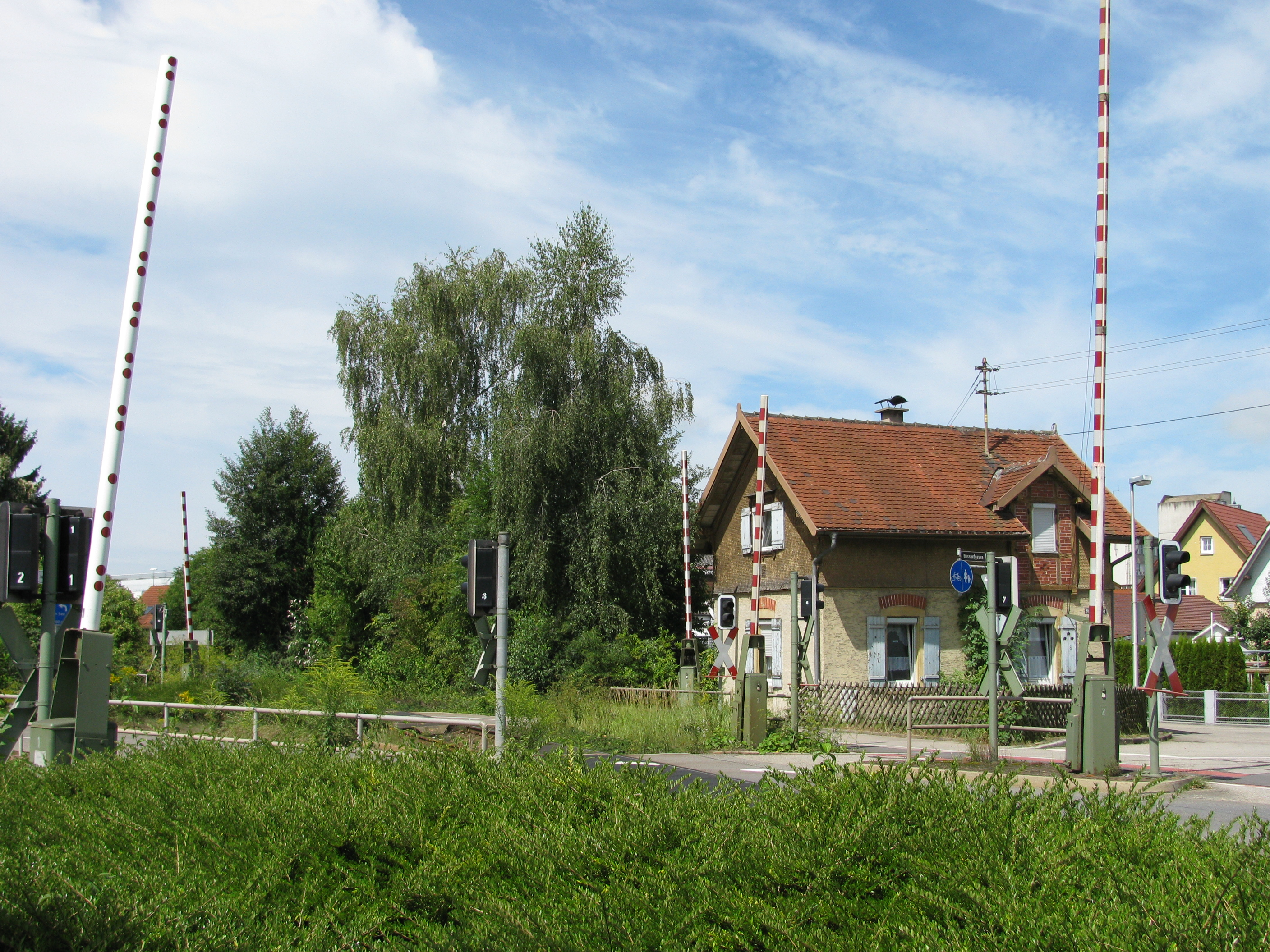 Germany - Baden-Württemberg - Bodenseekreis - Friedrichshafen - Ravensburger Straße (B 30): 'Bodenseegürtelbahn', level crossing